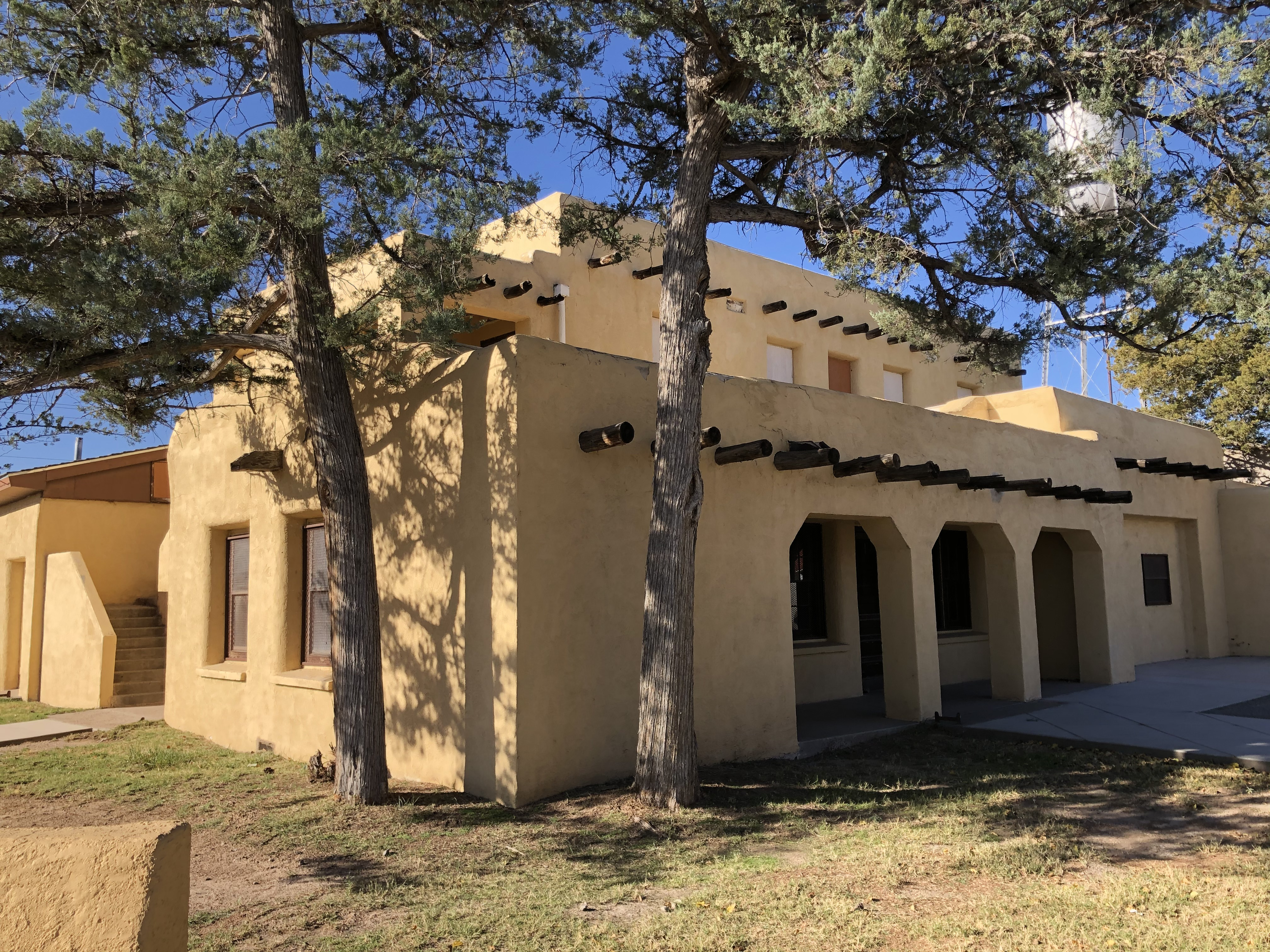 Former Belen City Hall located at 503 Becker Ave., Belen, New Mexico, USA